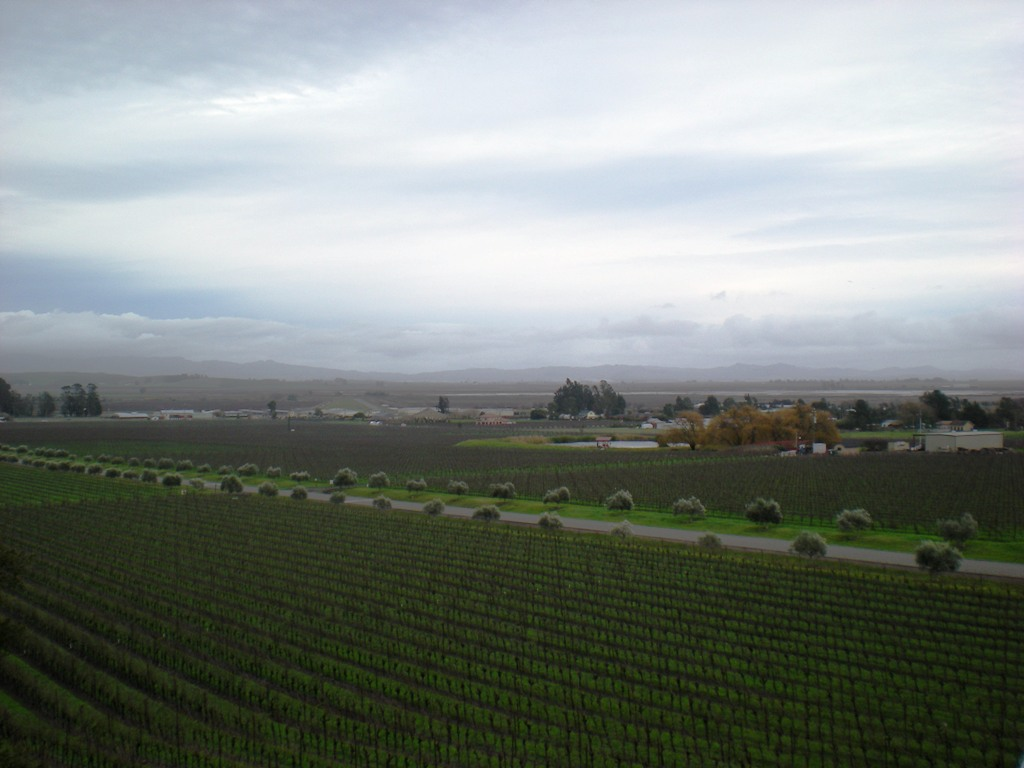 The view of the Sonoma Valley from the Gloria Ferrer tasting room.